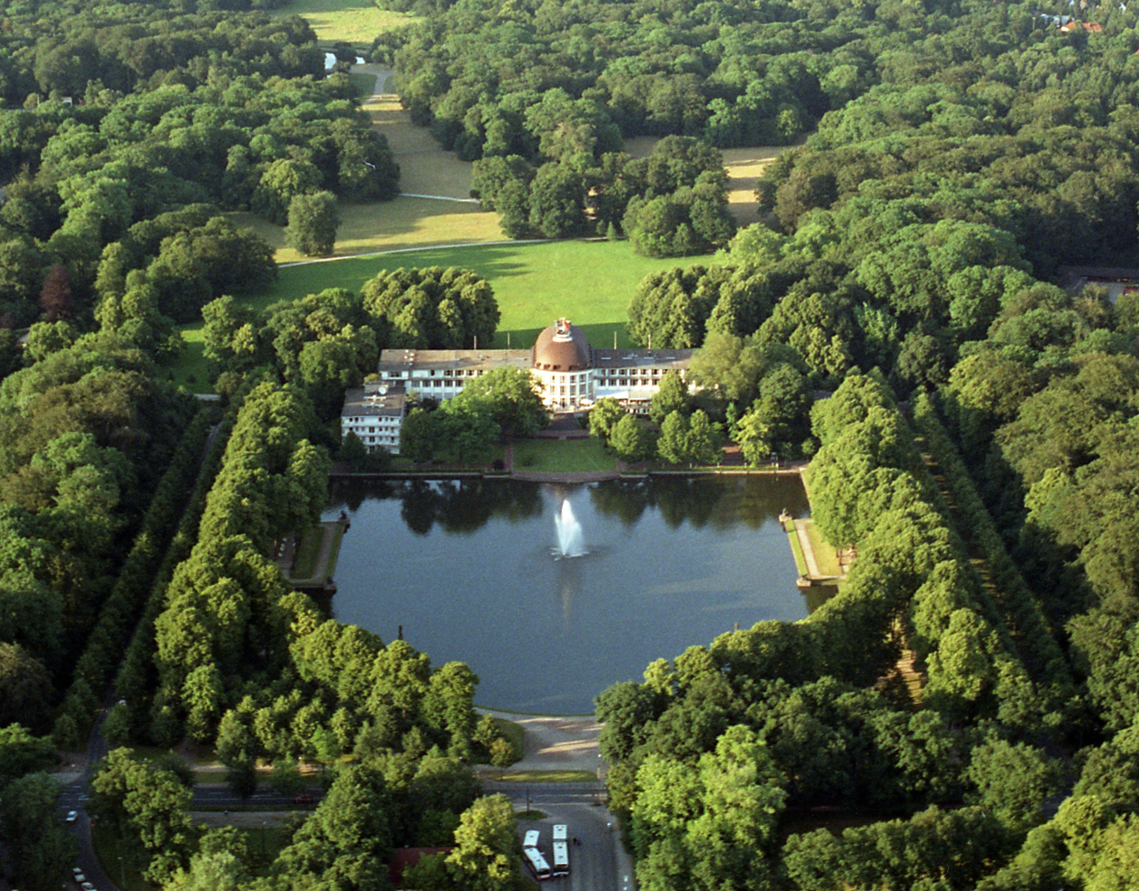 Park Hotel Bremen Germany, 1995